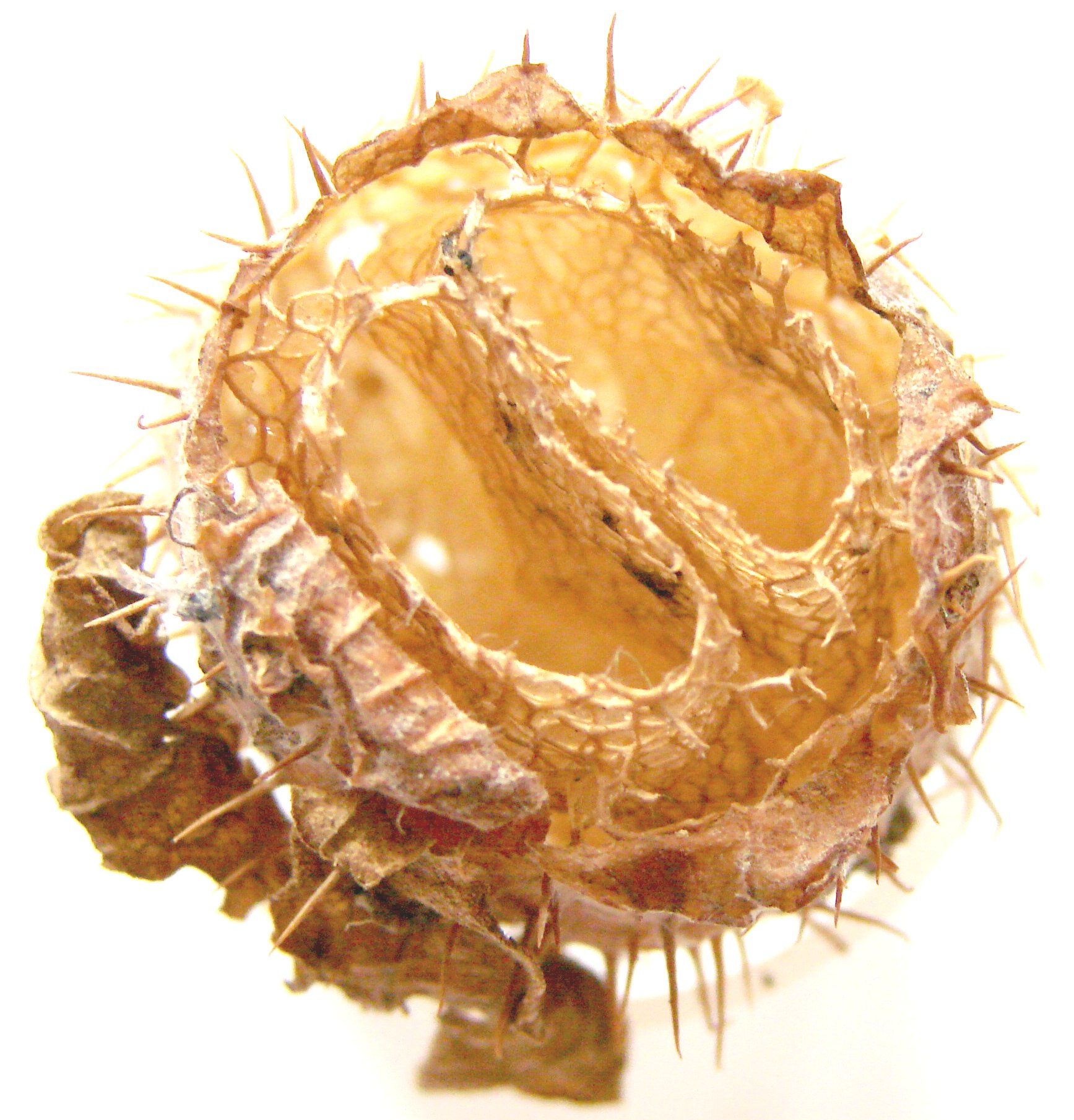 Echinocystis lobata